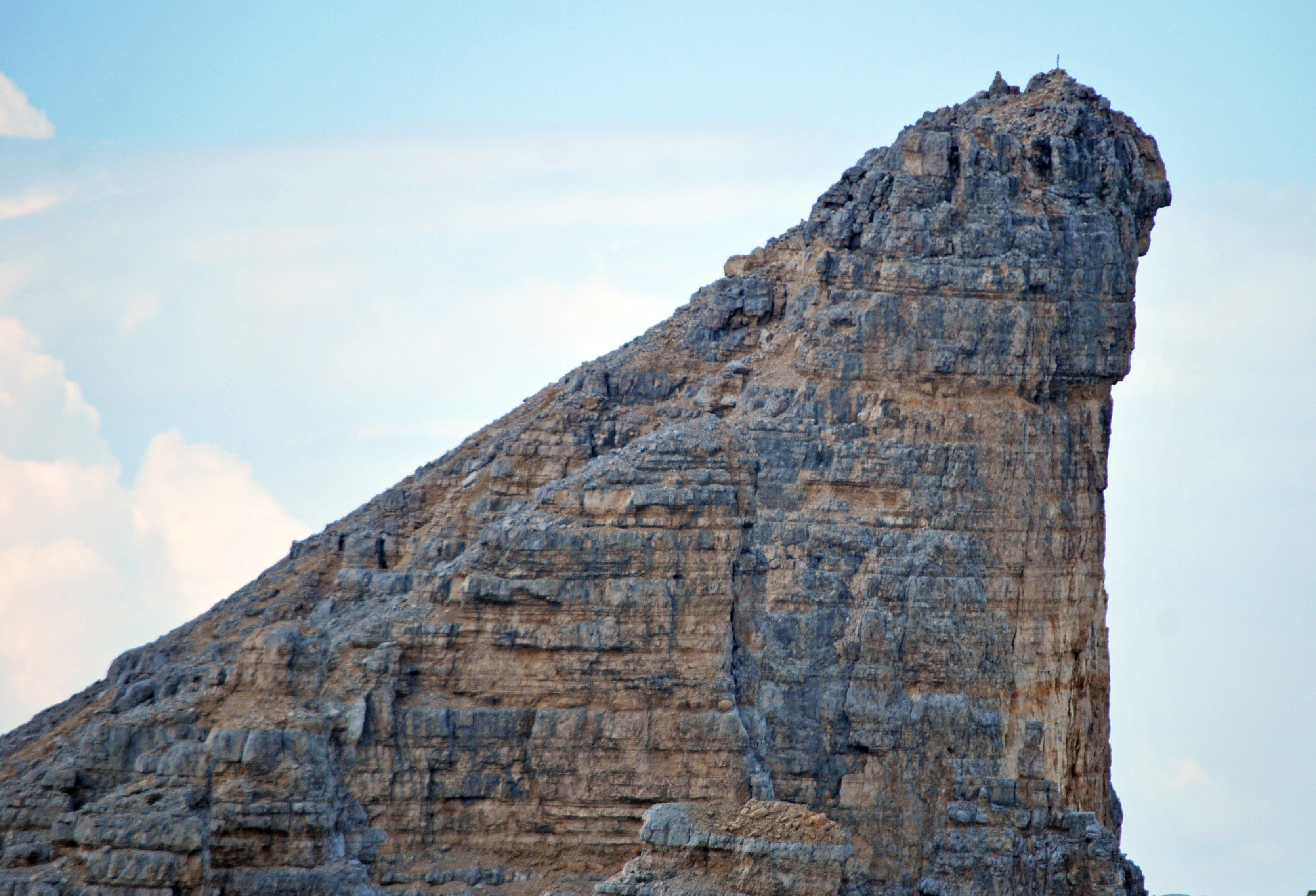 Diamantiditurm/Torre Diamantidi from NE (Latemarspitze/Schenon)